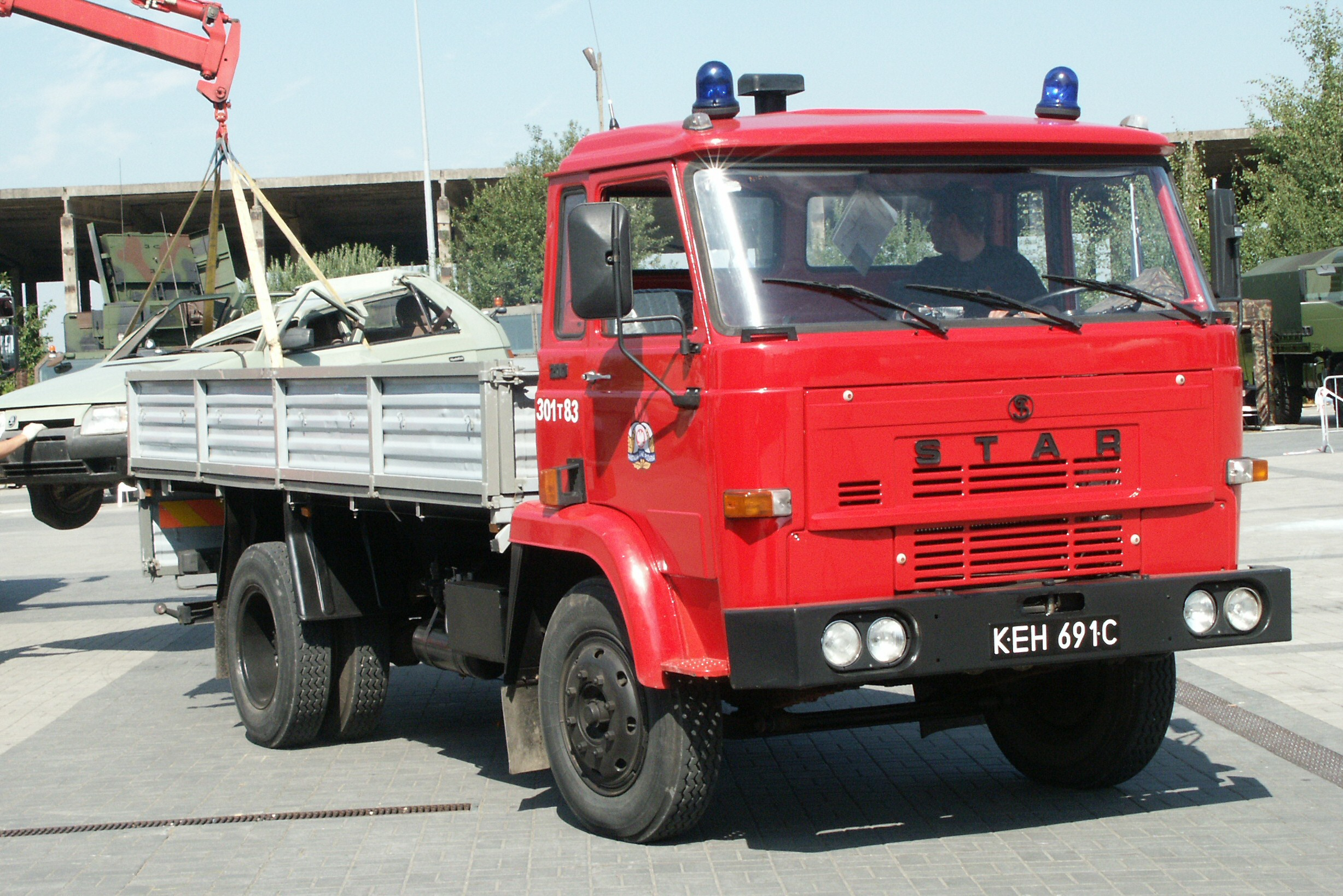 Star 200 truck of Kielce fire brigade, Poland